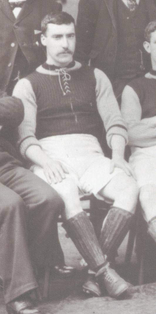 James Cowan cropped from the Aston Villa team picture of 1897.